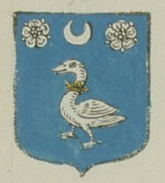 Arms of Nicolas Beguin registered in 1703 in Armorial Général de France